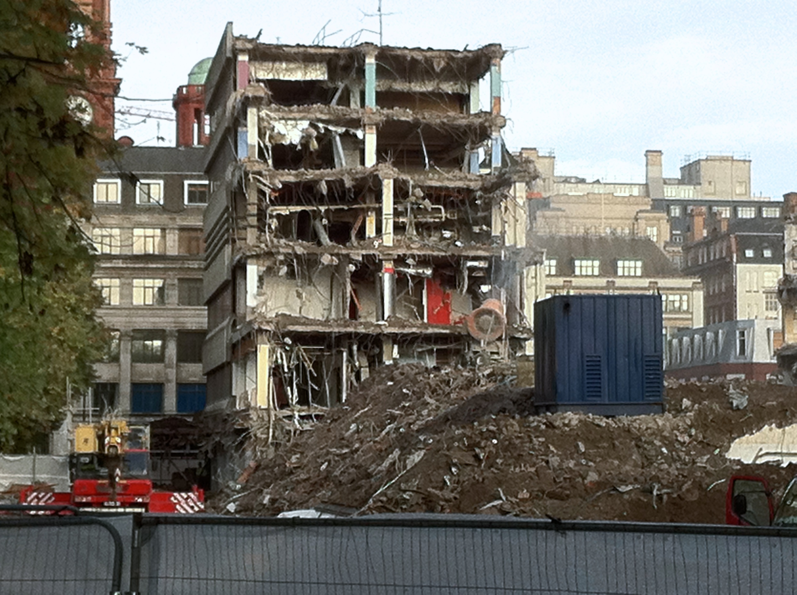 Demolition of New Broadcasting House, Manchester.